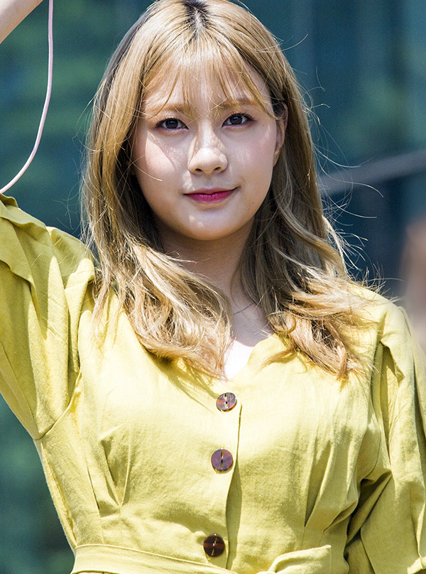 Oh Ha-young of Apink at a fan meet in Sangam in July 2018